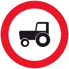 Diagram of road signs of Luxembourg